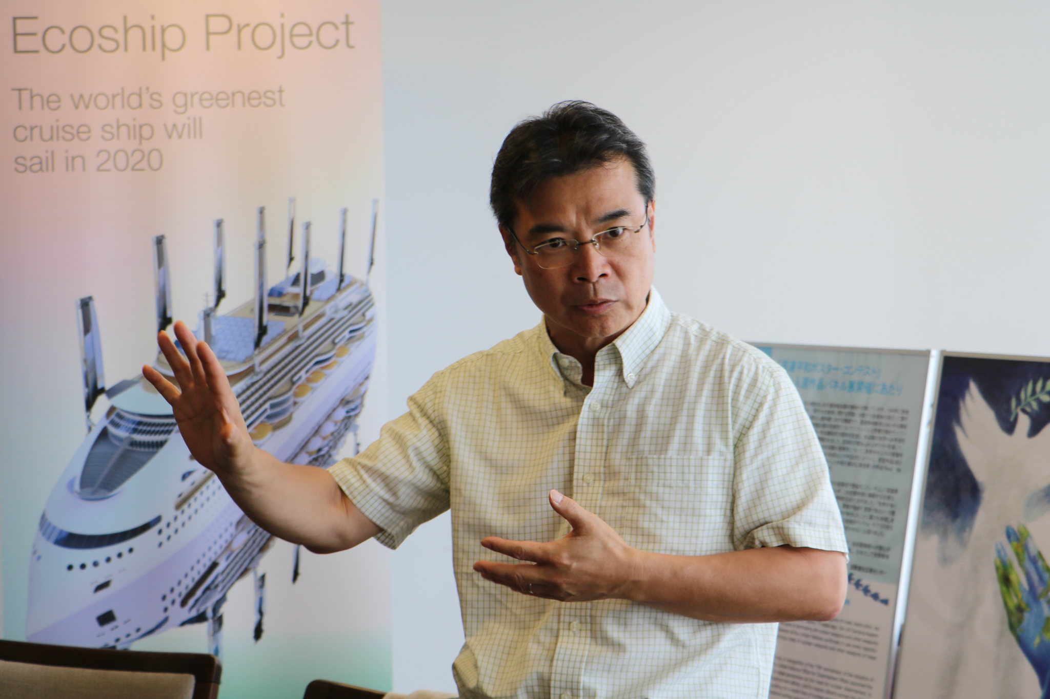 Yoshioka Tatusya is the co-founder and director of Peace Boat